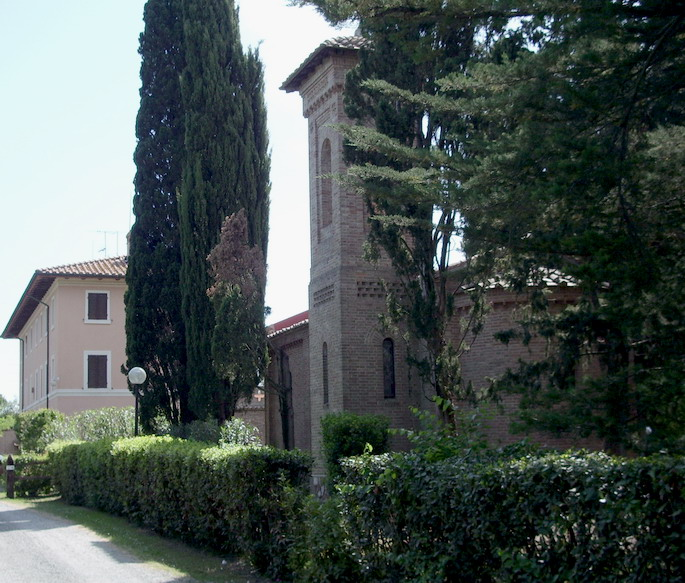 Church of San Carlo Borromeo and Fattoria di Principina (Grosseto)